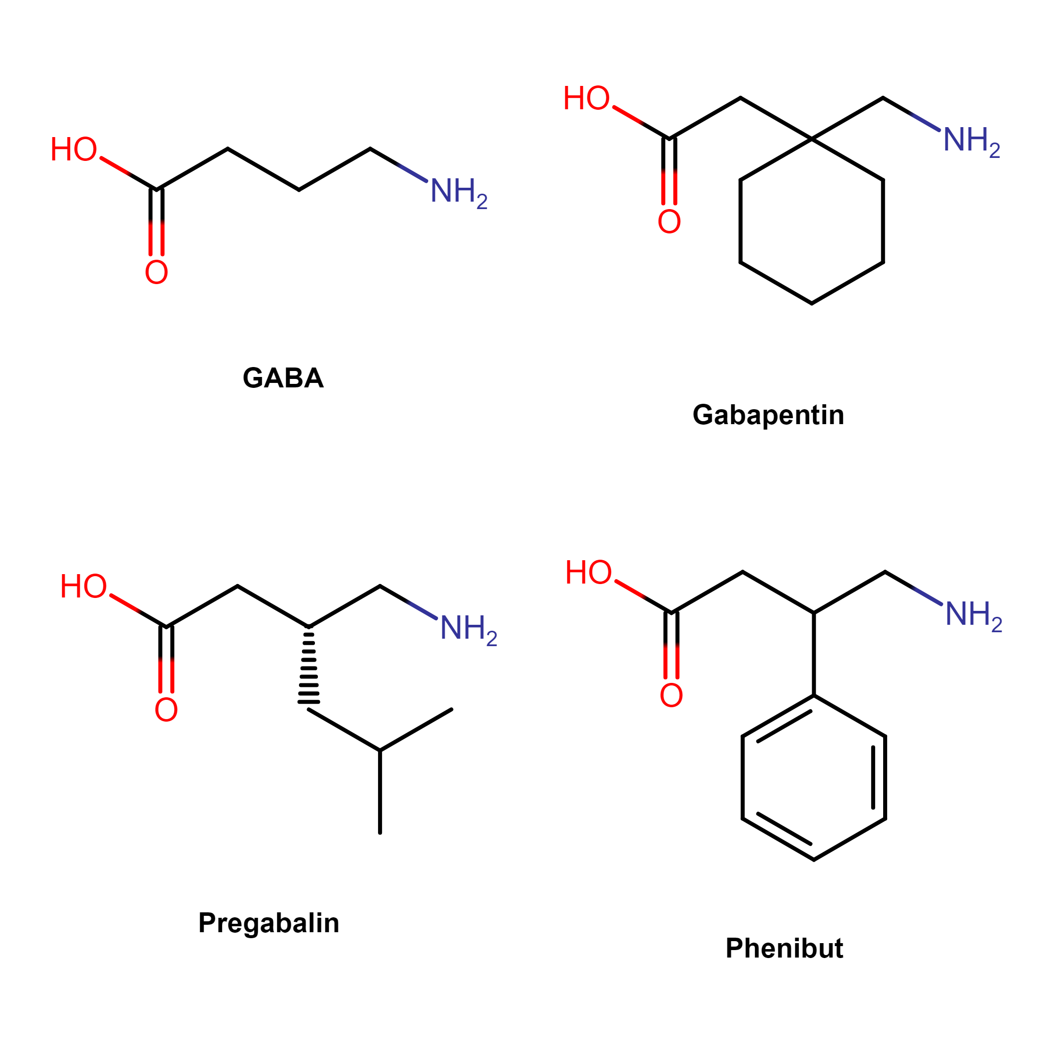 Chemical structures of gabapentinoids. I made this with Marvin JS.